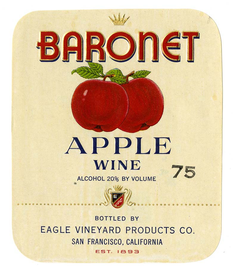 Repository: California Historical Society Collection: California wine label and ephemera collection Date: undated General Note: Winery established in 1893 Call Number: Kemble Spec Col 07 Digital Object ID: Kemble Spec Col 07_005.jpg Preferred Citation: Wine label, Eagle Vineyard Products Co., Baronet Apple Wine, California wine label and ephemera collection, Kemble Spec Col 07, courtesy, California Historical Society, Kemble Spec Col 07_005.jpg.